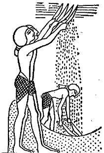 An illustration from the Encyclopaedia Biblica, a 1903 publication which is now in the public domain. Fig. 12 for article "Agriculture". Image of Winnowing